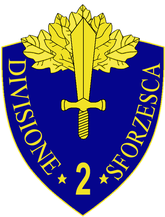 2a Divisione Fanteria Sforzesca insignia, Regio Esercito, Italy, WWII